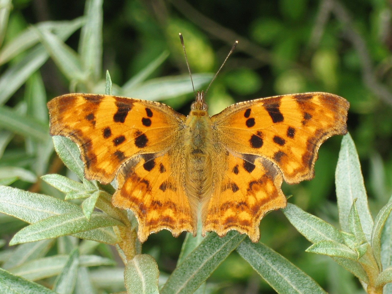 A Machaon (Polygonia c-album), picture taken by Tim Bekaert in De Panne, Belgium (July 3, 2005). The plant in the background is a Sea-buckthorn (Hippophae rhamnoides).